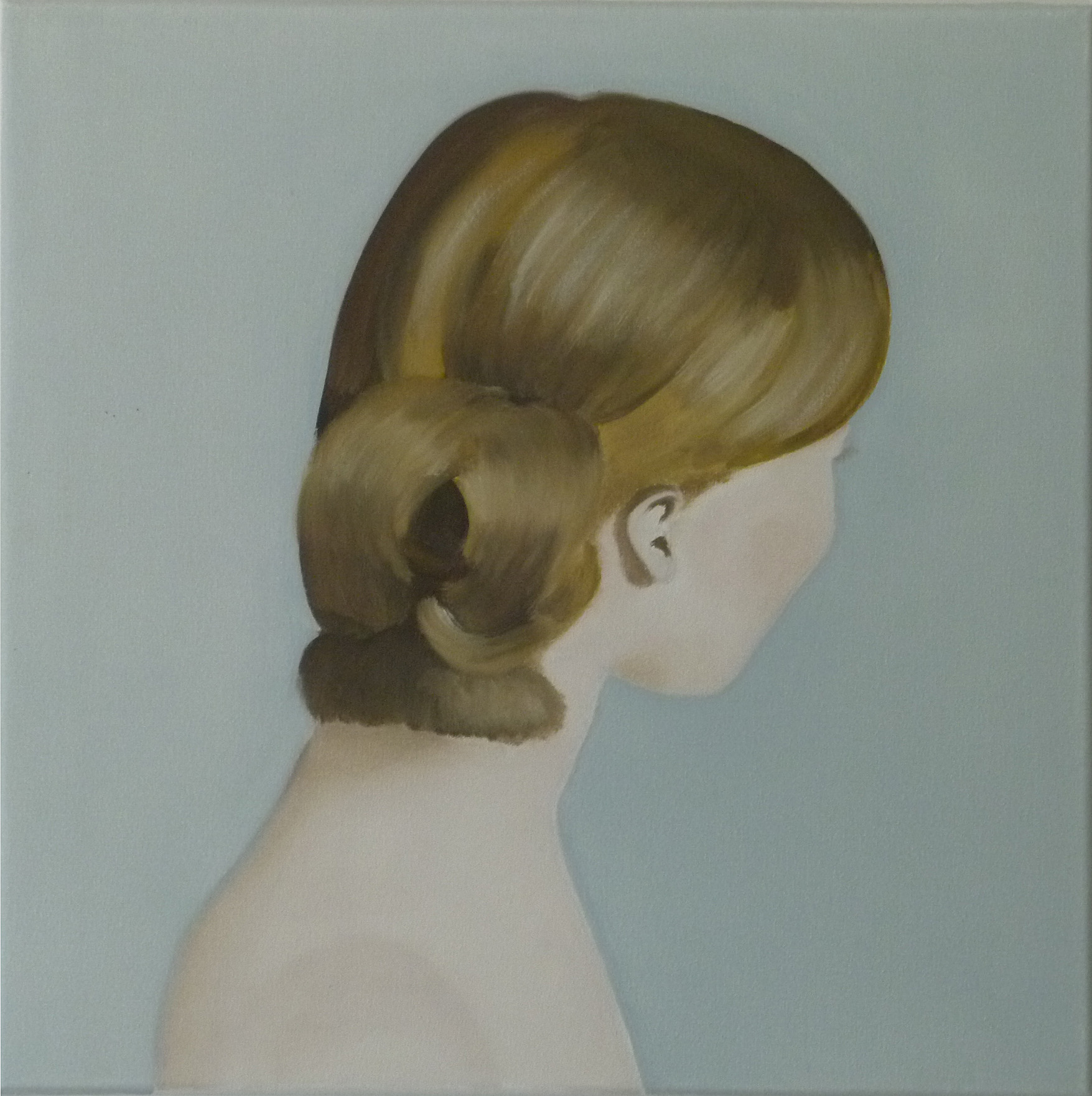 "Coiffure" (2012), oil on canvas by the Belgian artist Xavier Tricot